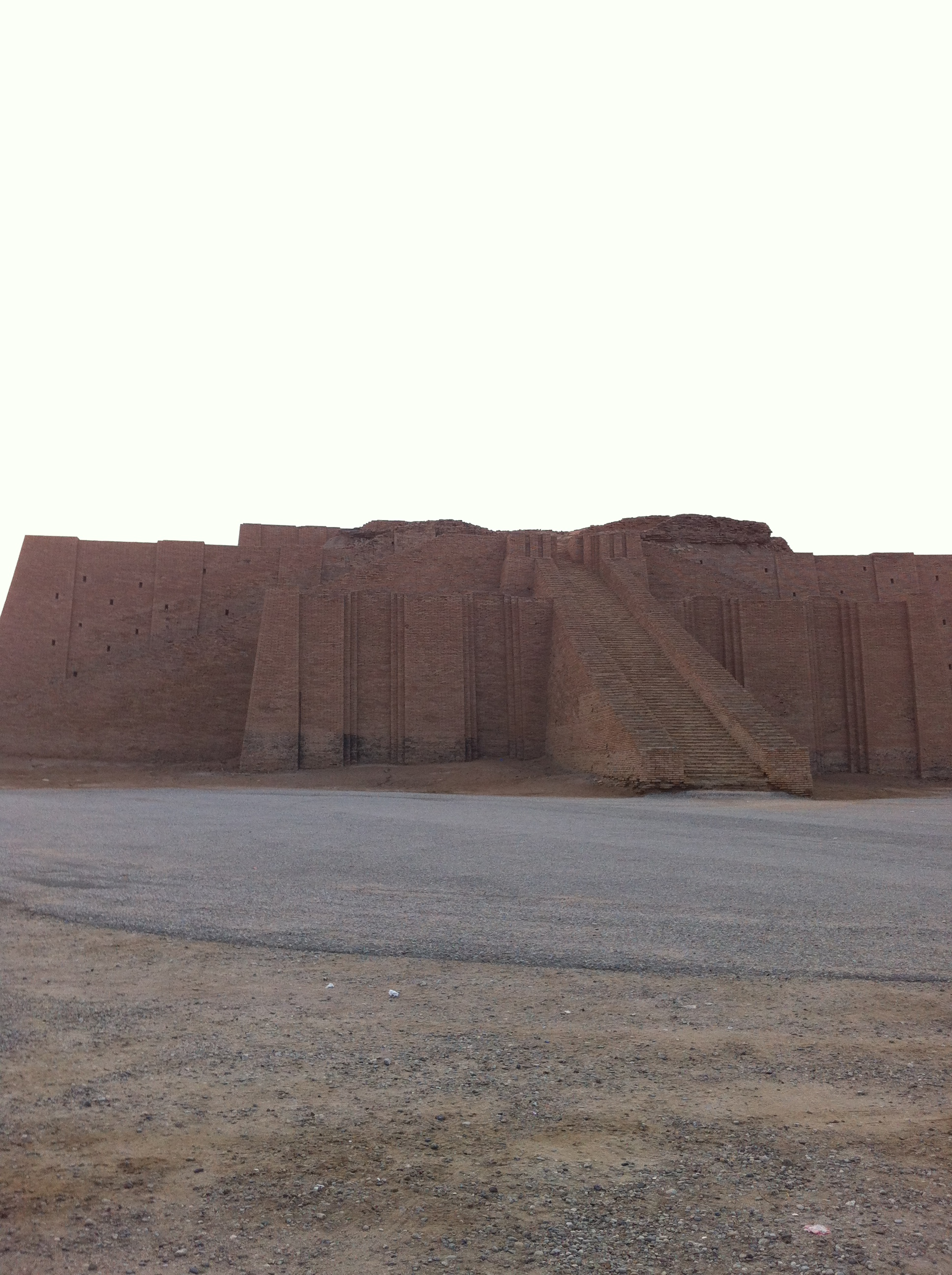 Ziggurat of Ur, Dhi Qar, Iraq 2013